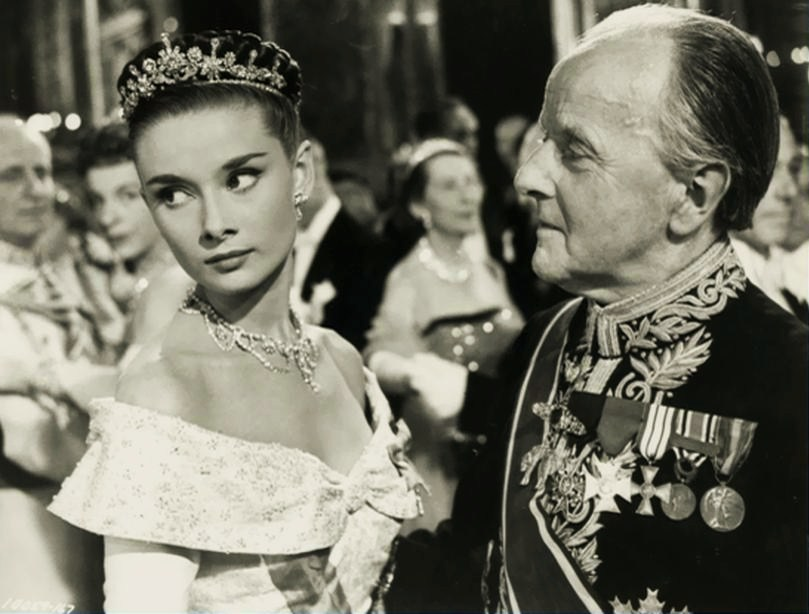 Audrey Hepburn & Harcourt Williams on the set of Roman Holiday - publicity still (cropped)